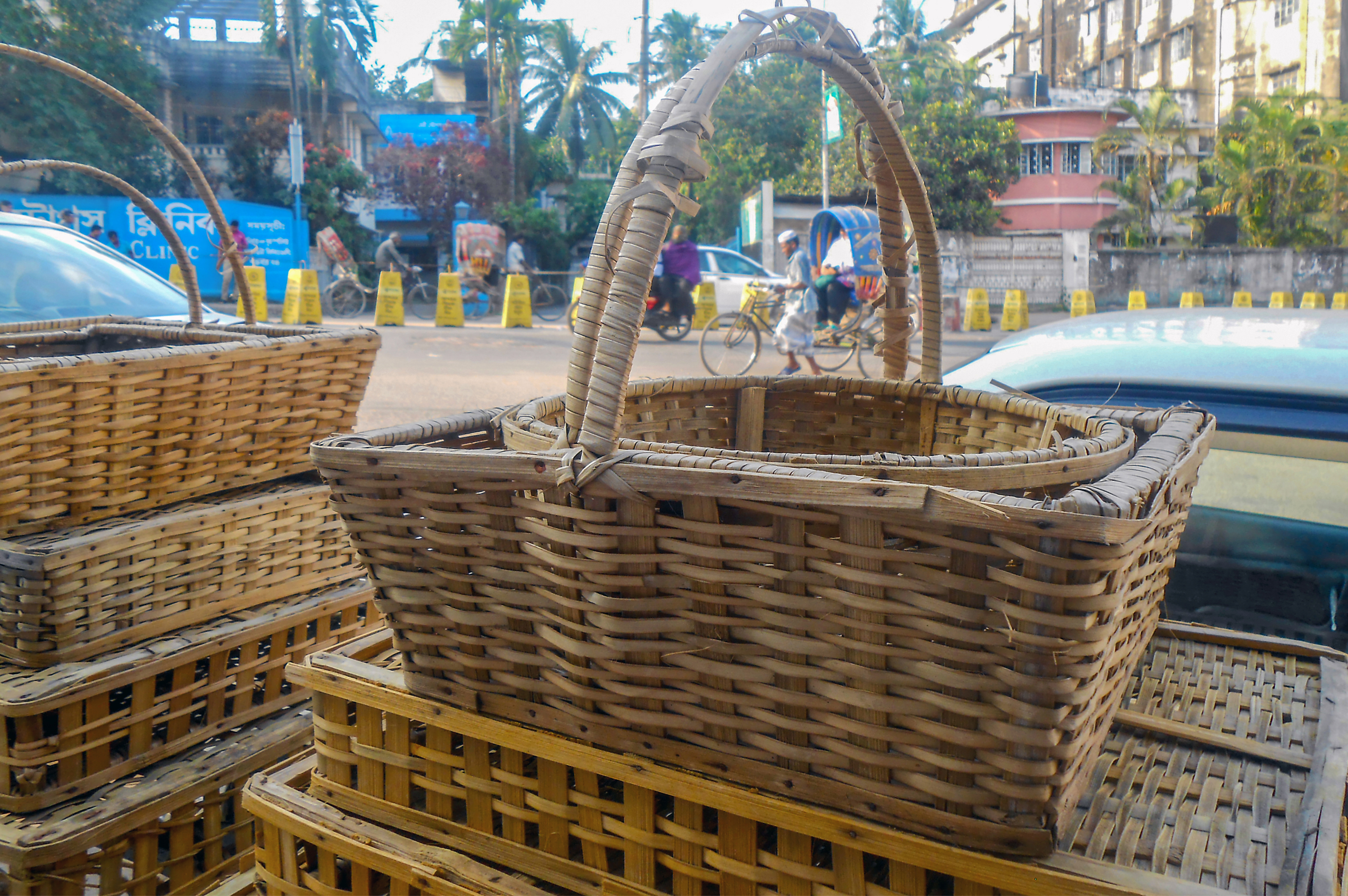 Contemporary bamboo baskets of Bangladesh at Prabartak Circle, Chittagong.